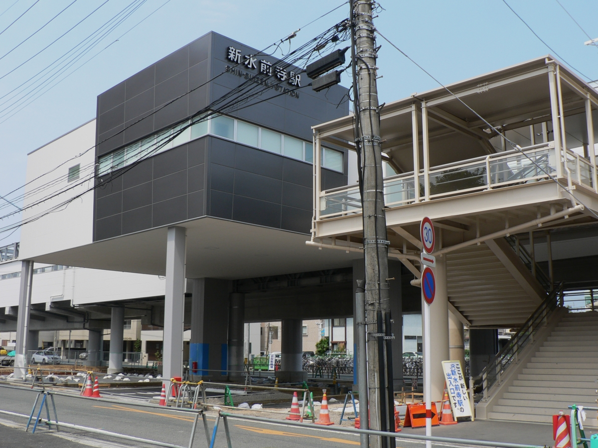 JR Kyushu Shin-Suizenji Station new building